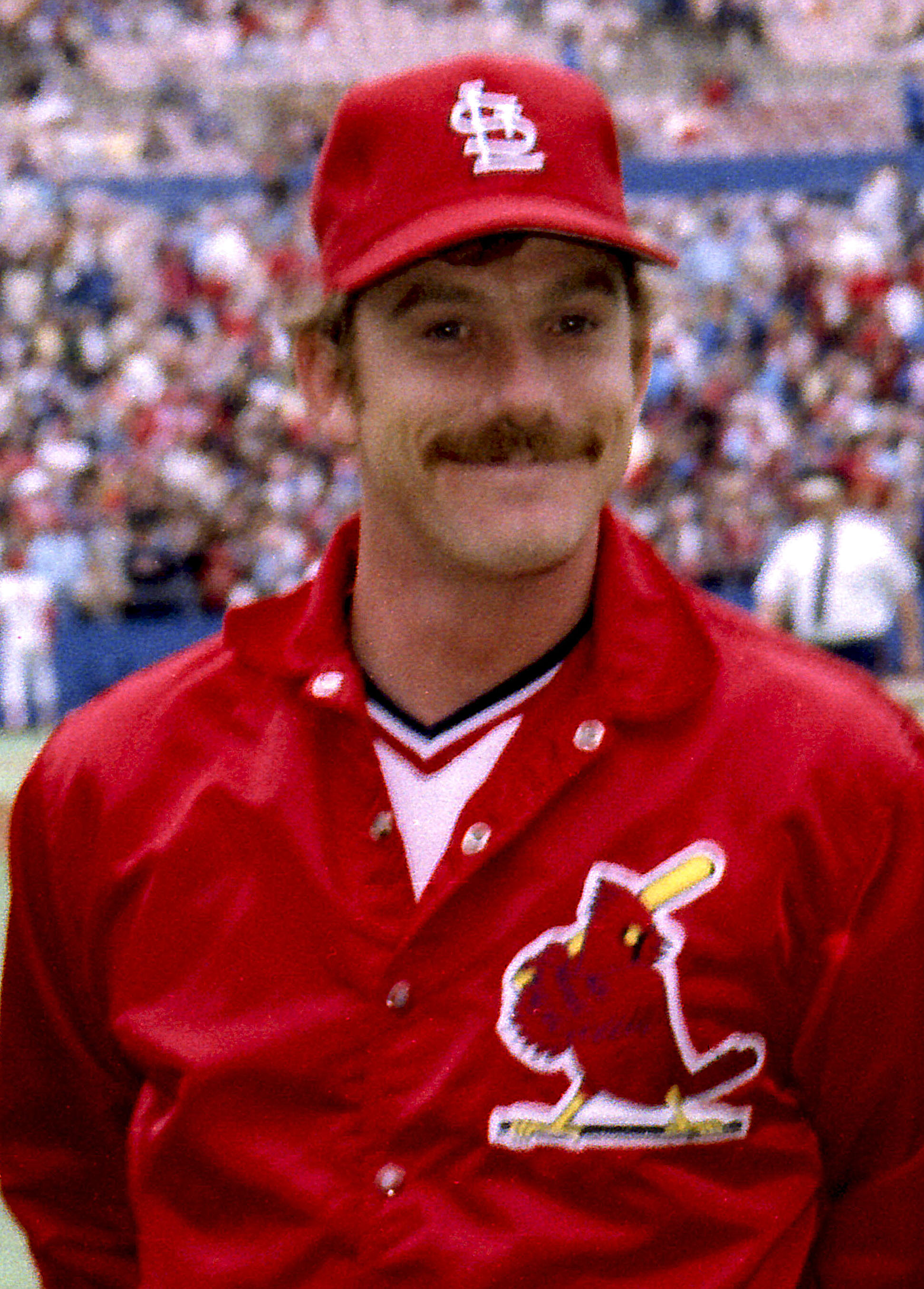 Jeff Lahti, cardinal pitcher in 1983